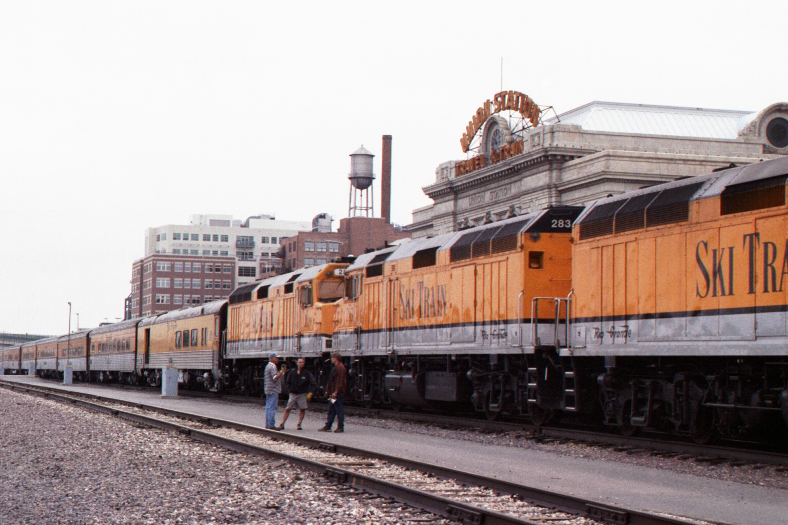 Private Denver Ski Train with F-40s in front of Union Station, June 2003.